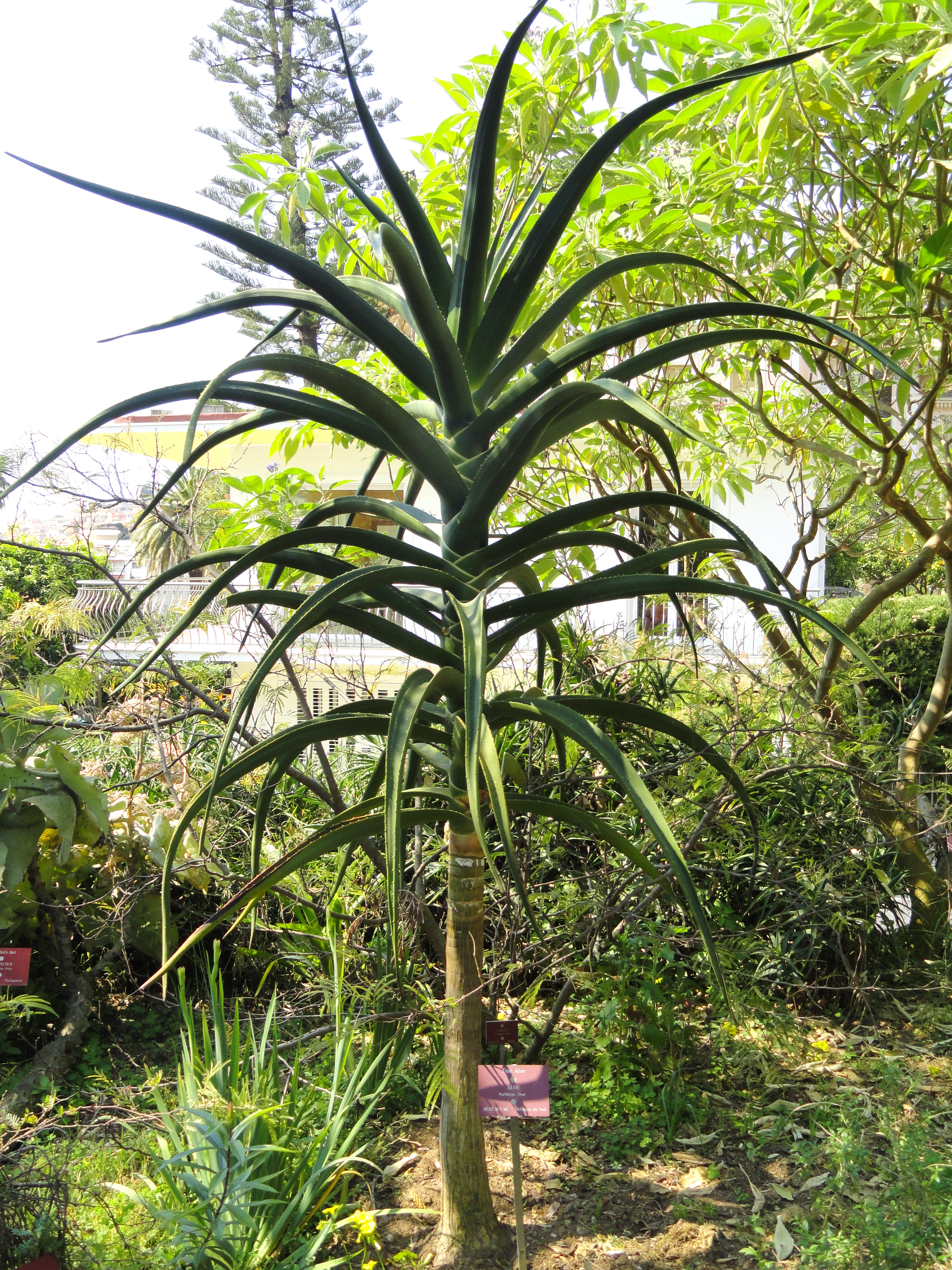 Aloe barberae specimen in the Jardin botanique du Val Rahmeh, Menton, Alpes-Maritimes, France.